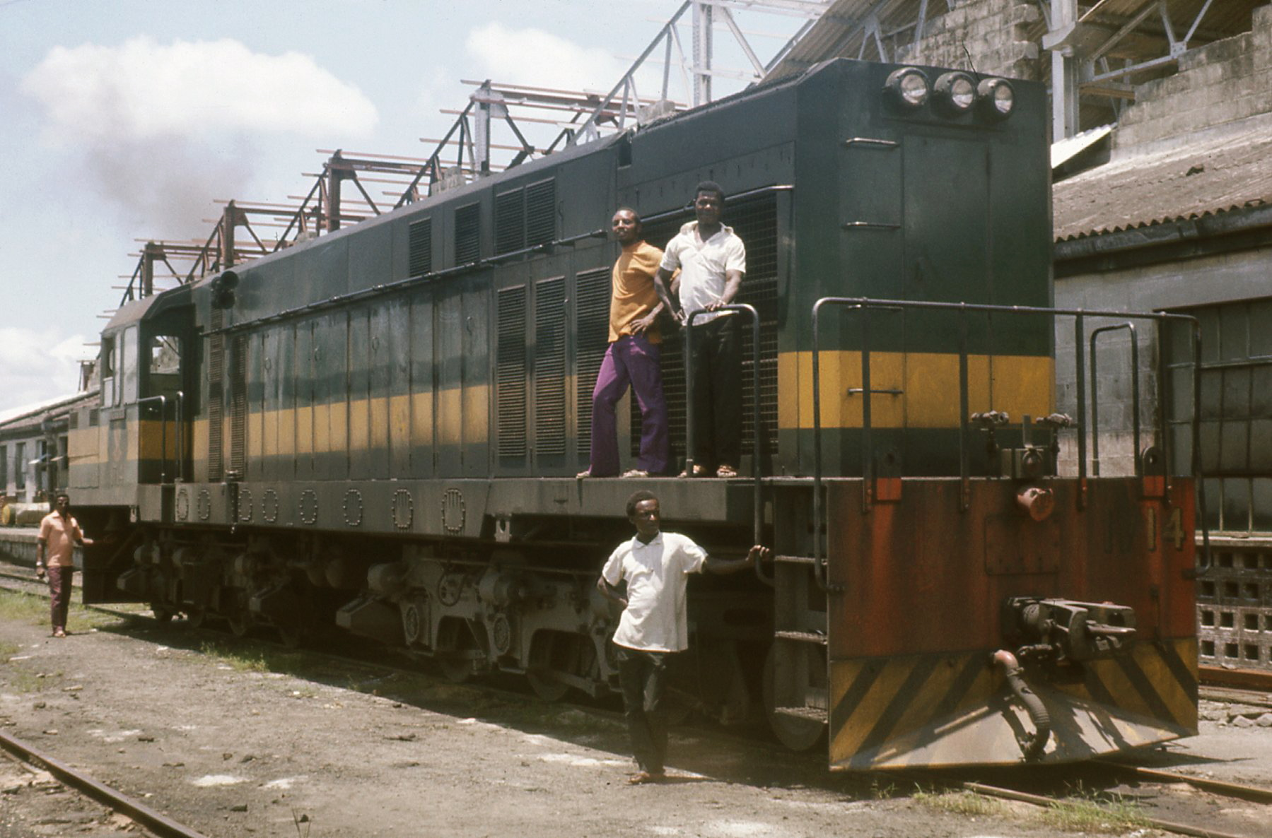 1701 class, Nigeria